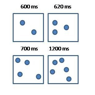 Subitizing